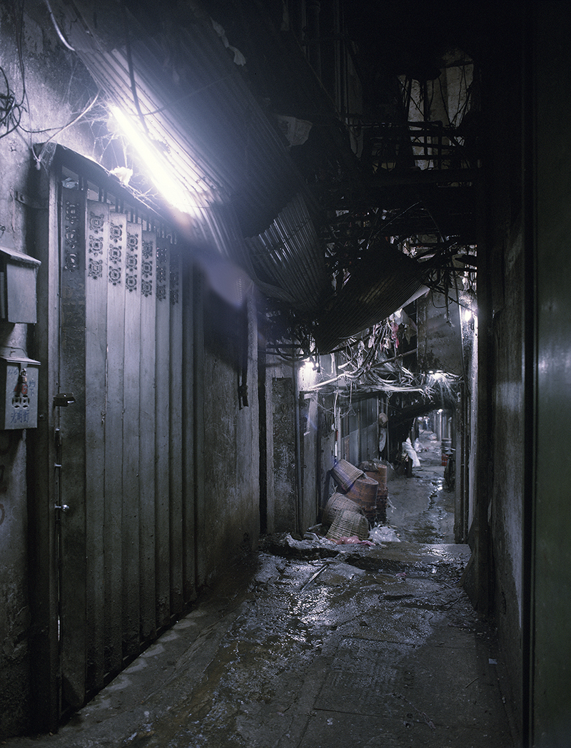 An alley in the City of Darkness.